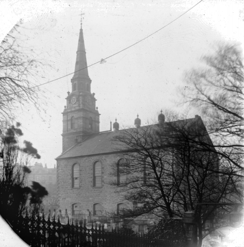 St Cuthbert's Church, Edinburgh. The church was built by James Weir and opened in 1775, replacing an earlier church; the steeple added between 1789 and 1790 by Alexander Stevens. This building closed for worship in 1890 and was replaced by the current church between 1892 and 1894.